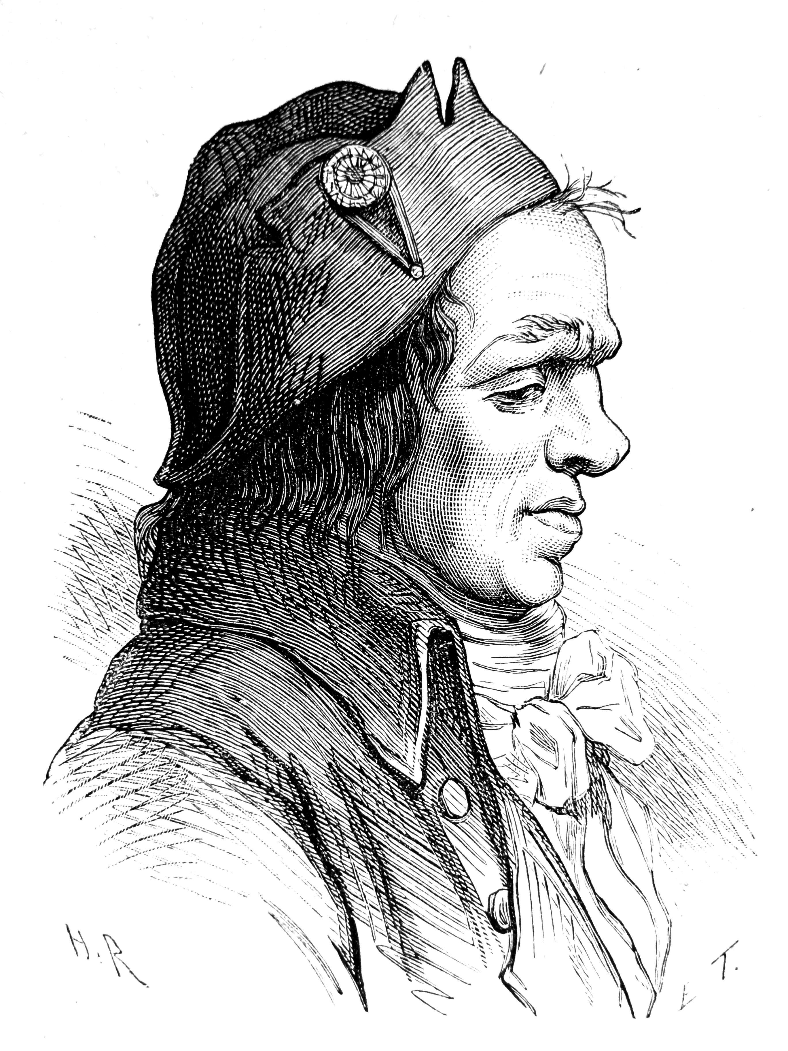 Included 436 engravings (woodcuts)